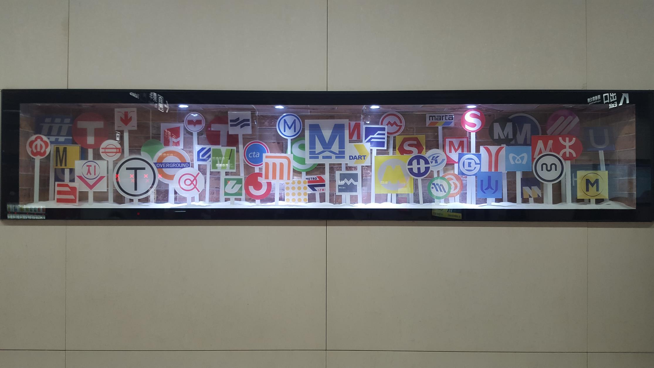 Art Box in Guangbutun Station, Wuhan Metro